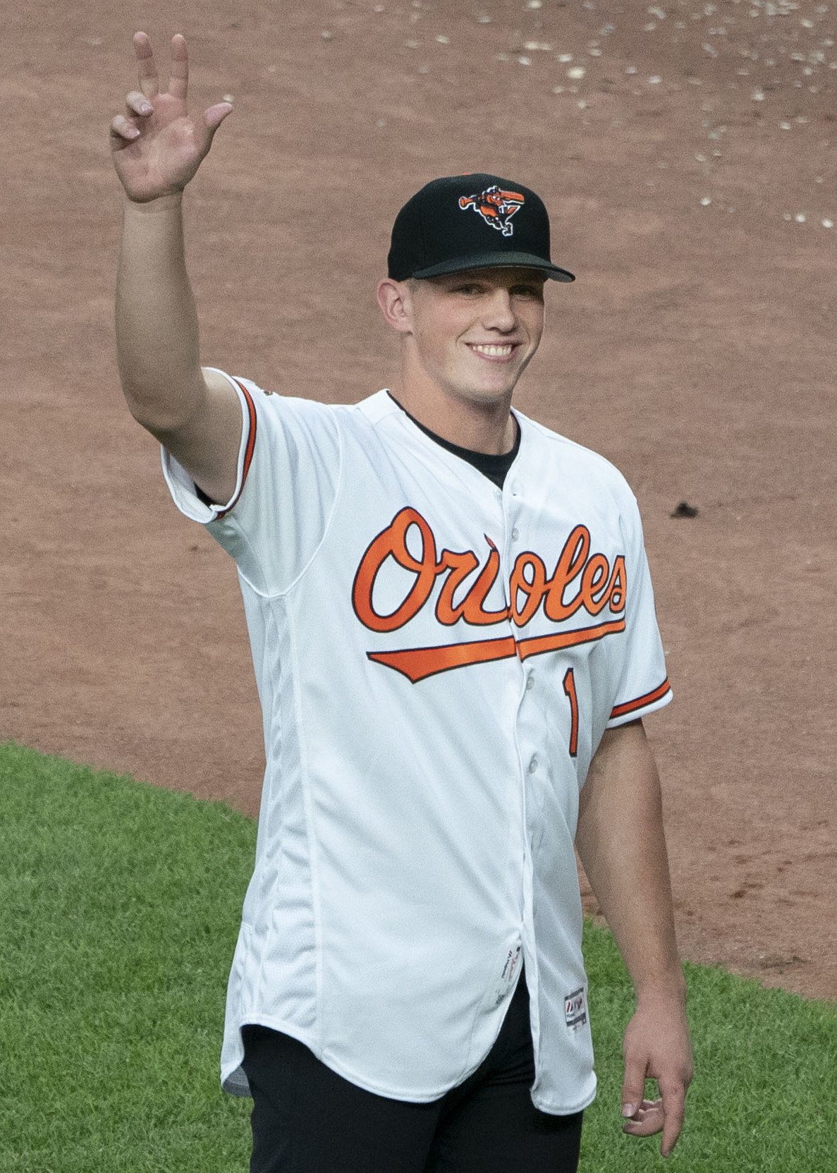 Adley Rutschman of the Baltimore Orioles acknowledges the crowd during a game at Oriole Park at Camden Yards on June 25, 2019 in Baltimore, Maryland.